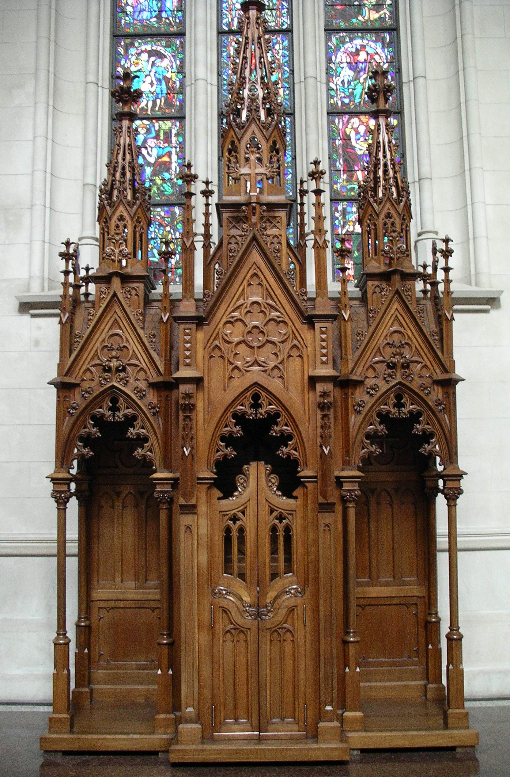 The confessional, carved by Miguel Schenke, in the Cathedral of La Plata, Catedral de la Plata.